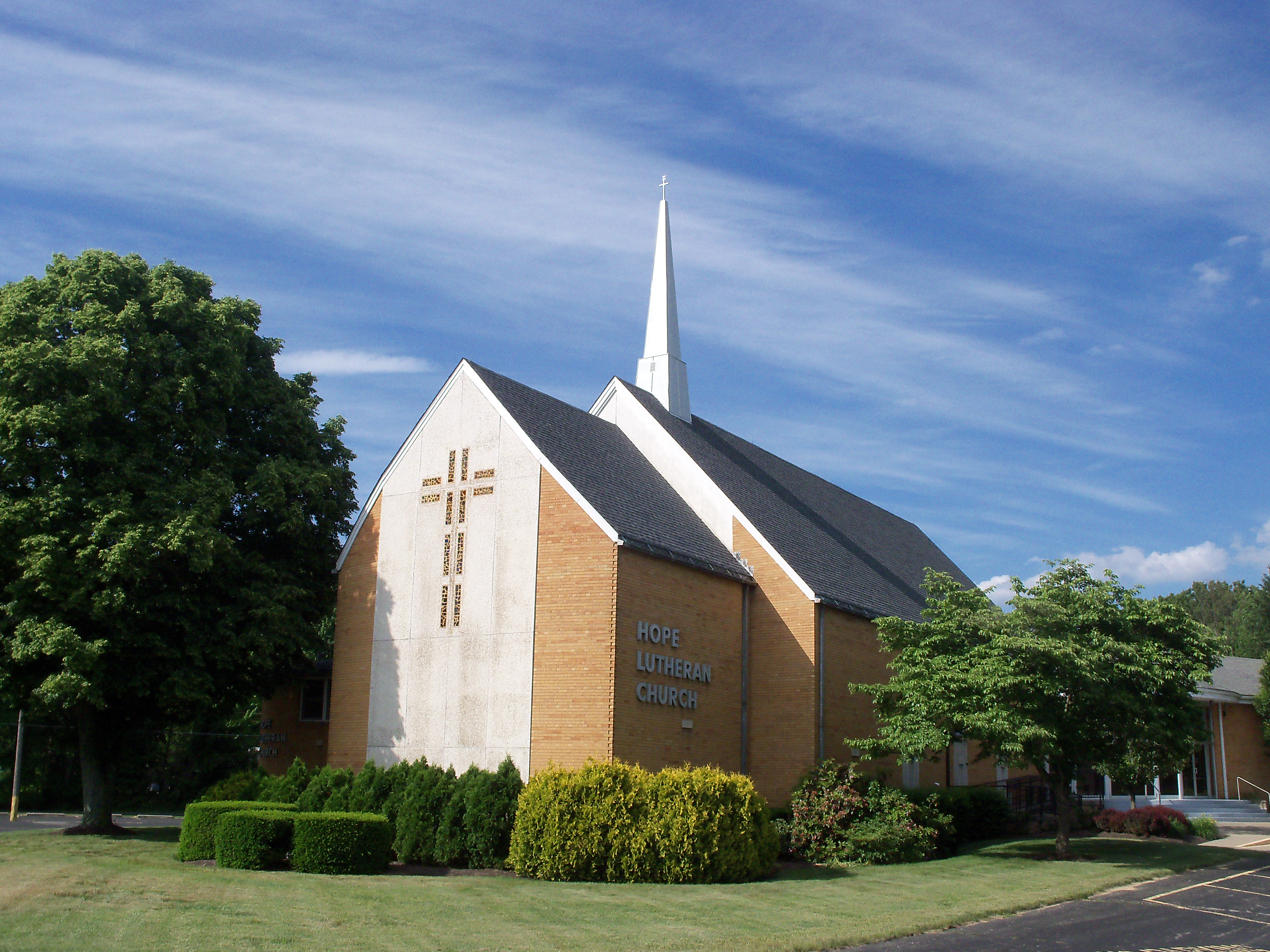 Hope Lutheran Church is near North Reservoir in Portage Lakes, Ohio